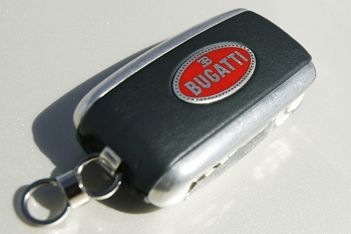 Hans Mayer